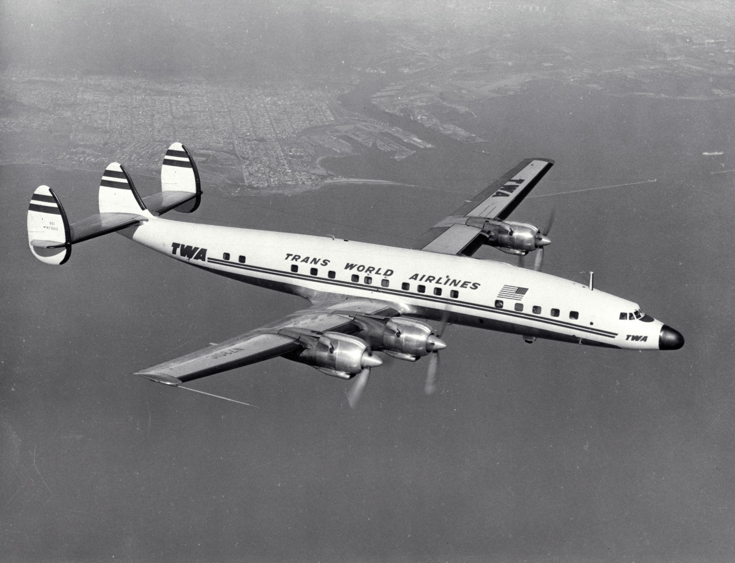 A Trans World Airlines Lockheed L-1649 Starliner (civil registration N7301C) in flight in the late 1950s or the early 1960s, during a test flight. Note the flight test pitot boom attached to the right wingtip. This aircraft was written off after an accident at Bogotá-Eldorado Airport, Colombia, on 18 December 1966, while in service with Aerocondor de Colombia. 17 of 59 passengers and crew were killed.